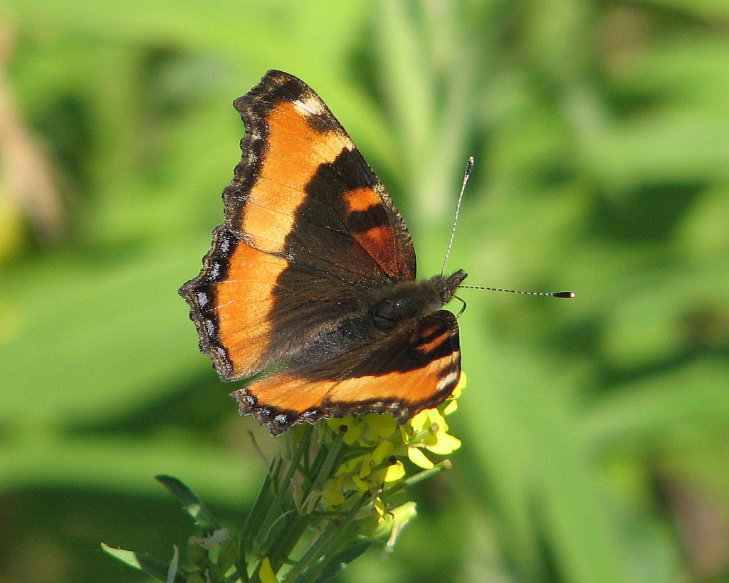 Milbert's Tortoiseshell (Aglais milberti) taken in Mer Bleue Conservation Area, Ottawa, Ontario, Canada